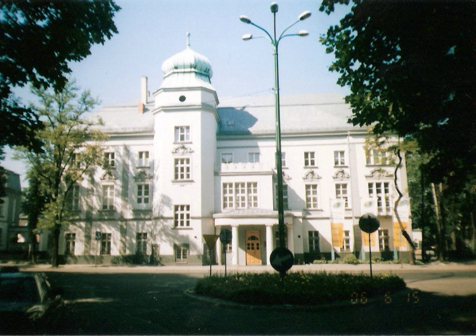 Palais in Jaworzno in Poland